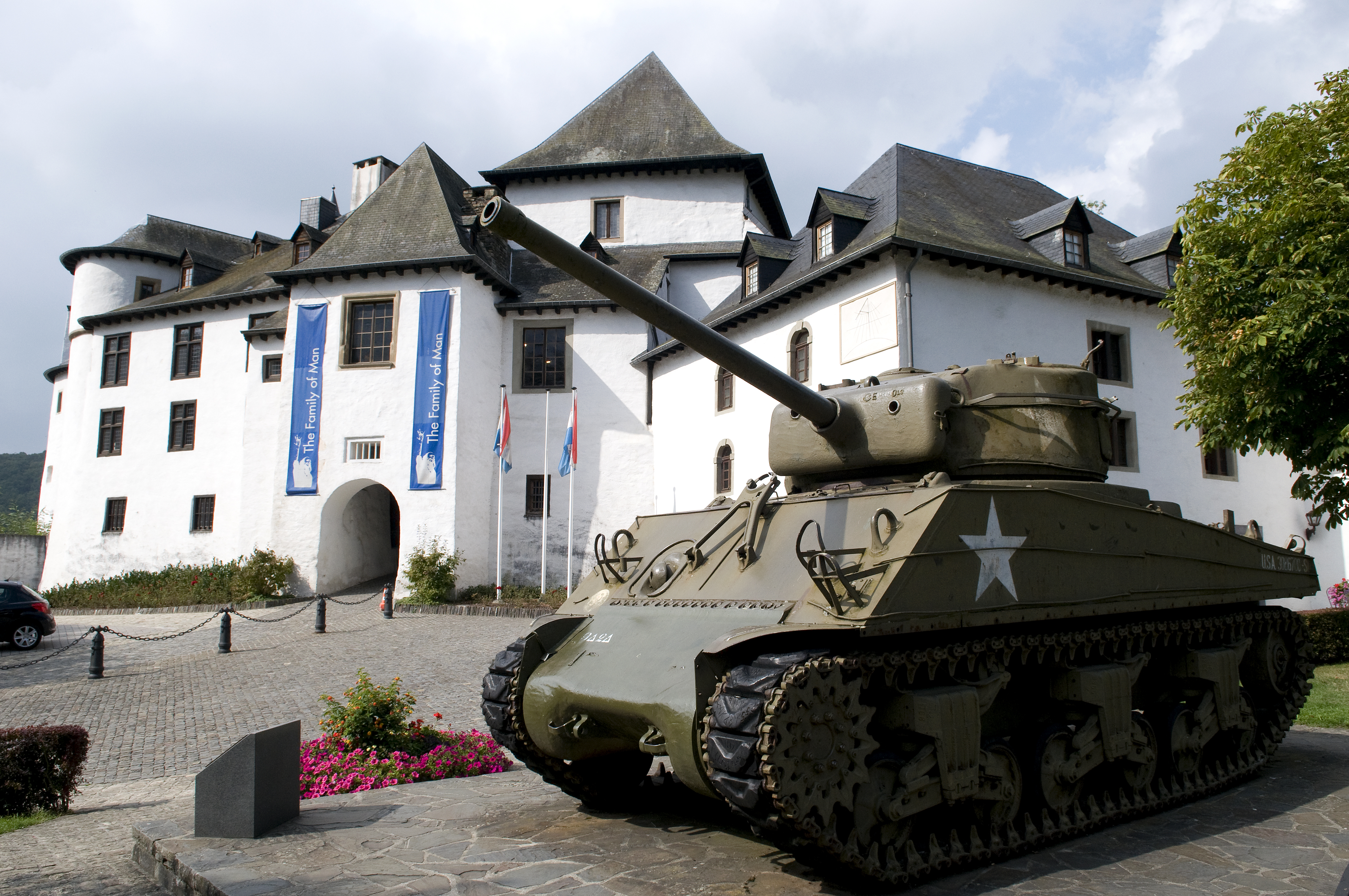 Clervaux, Luxembourg "The Family of Man", a famous exhibit of photos collected by Edward Steichen, is on permanent display at the Castle of Clervaux.